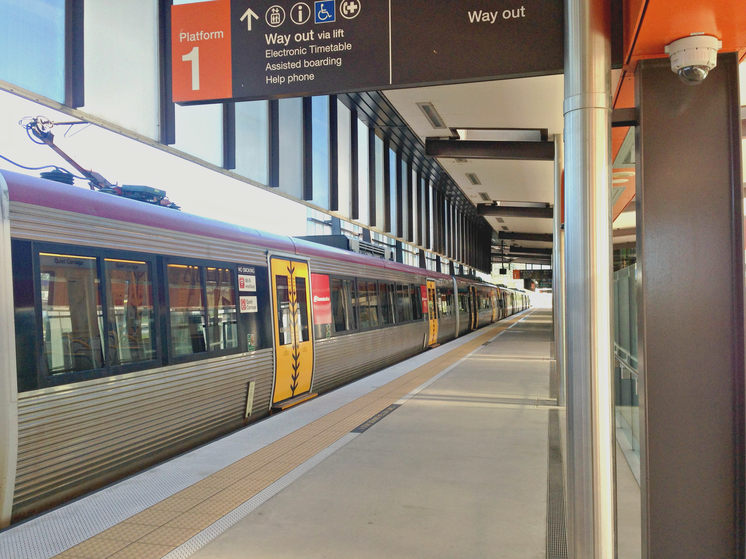 The 12:09 pm Brisbane City and Redcliffe Peninsula train on Platform 1 at Springfield Central Station. The train in the foreground is IMU174 and the coupled train in the background is IMU185. The image was taken on 5 June 2017 facing west, towards the end of the line.